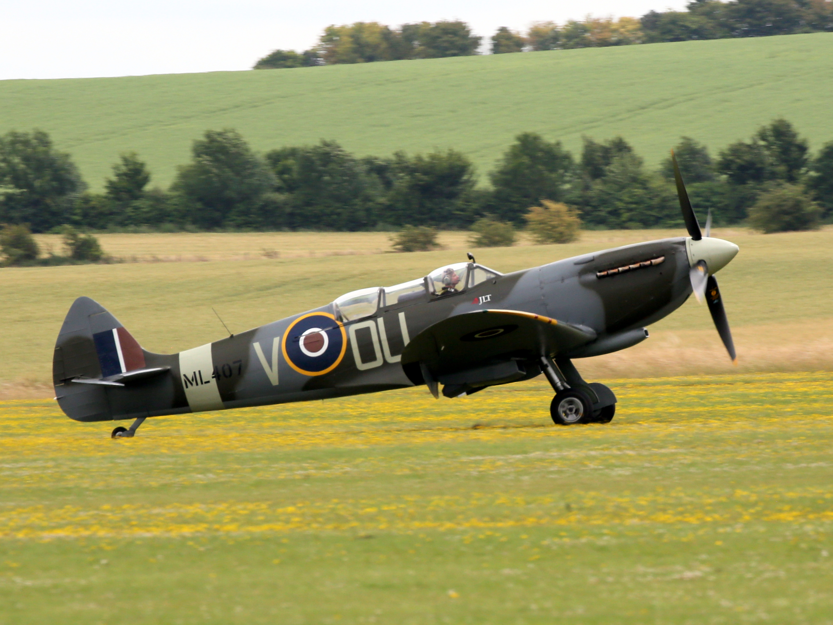 Flying Legends air show 2016